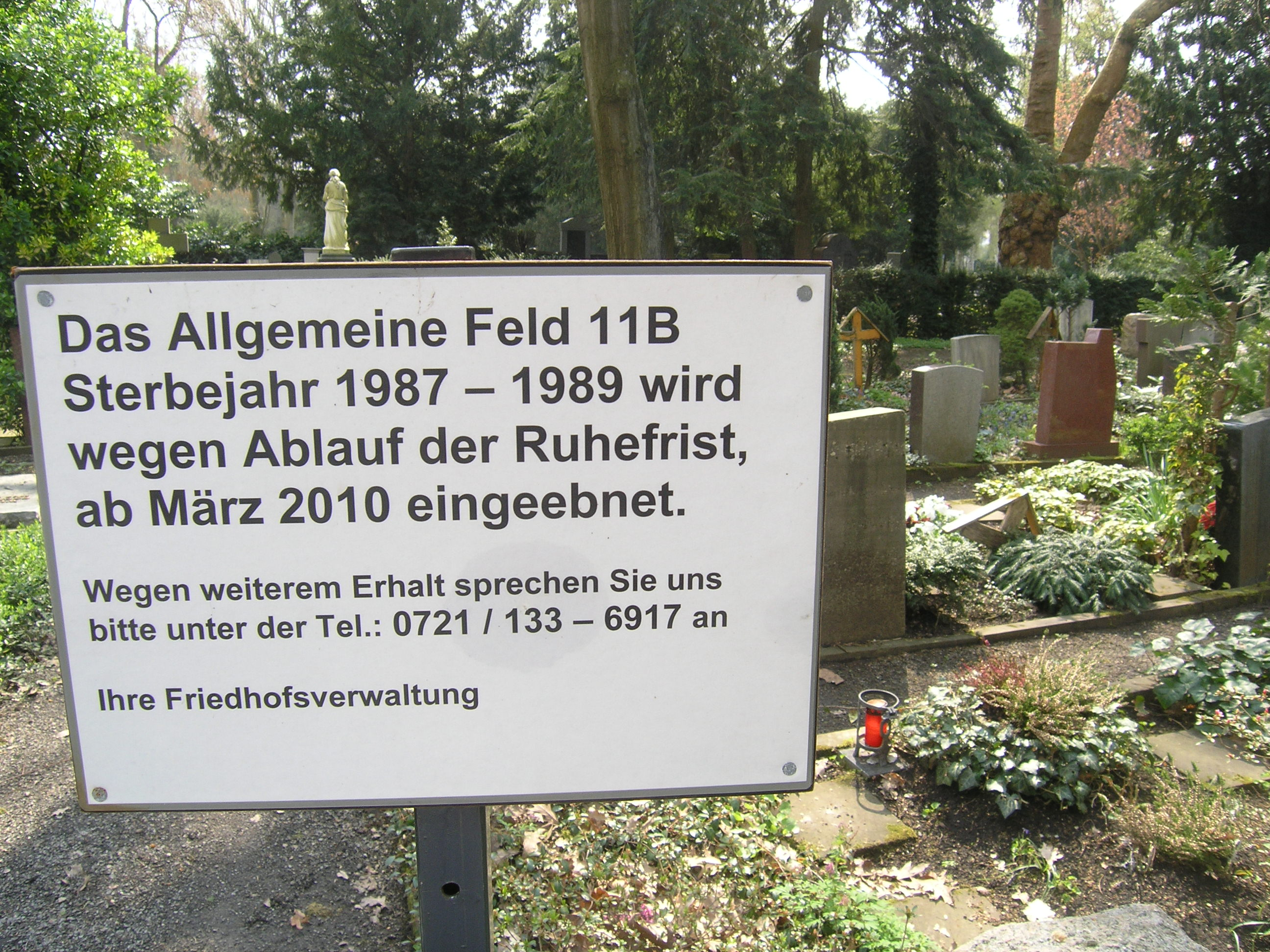 Main cemetery of Karlsruhe, sector 11B, with vacation announcement: The general field 11B year of death 1987—1989 will due to expiration of rest period be planed from March 2010 on. For contiuned preservation, please contact us. Yours, the cemetery administration